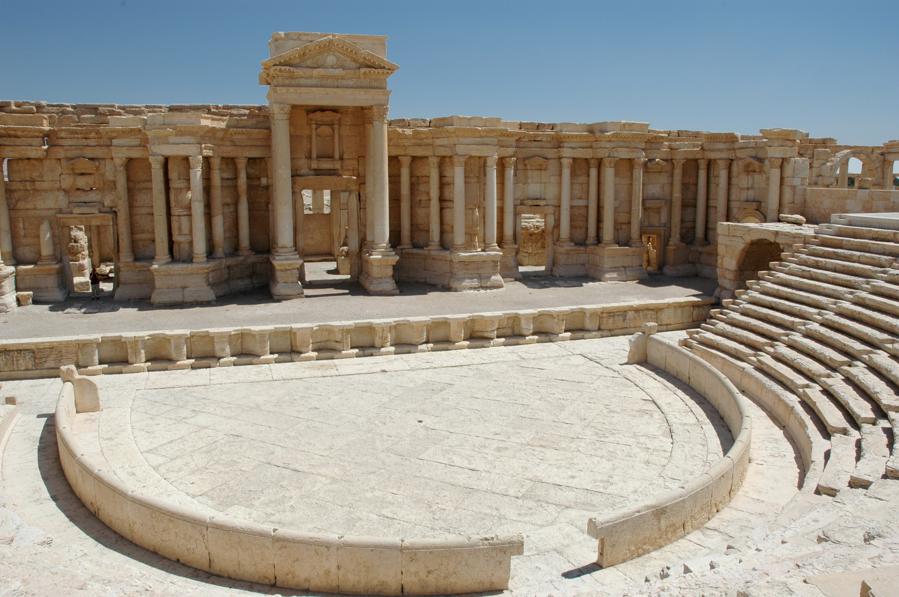 Roman theater, Palmyra in 2004